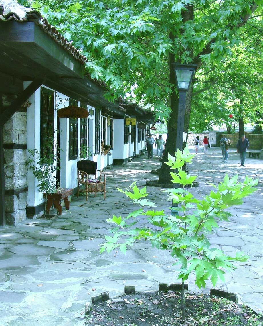 Photography & Art: Kosi Gramatikoff User:Kosigrim; Location: Street in Old Town, Dobrich, Bulgaria